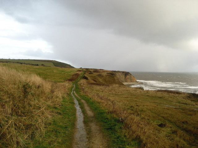 Coastal Path near Easington Colliery Splendid path just north of Easington Colliery that runs above the cliffs, and parallel to a railway line